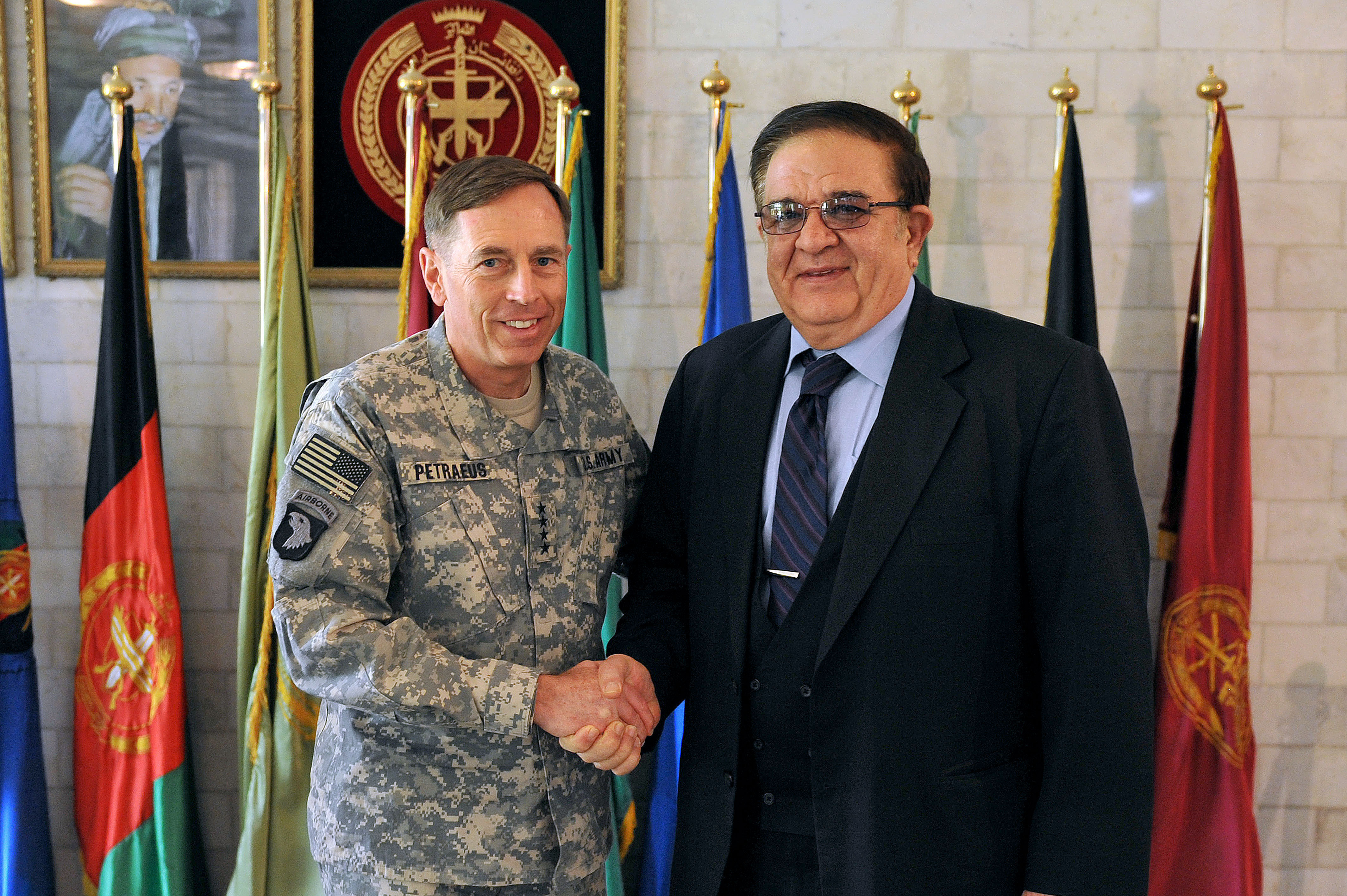 KABUL, Afghanistan - U.S. Army Gen. David H. Petraeus, commander, International Security Assistance Force, meets with Abdul Rahim Wardak, Afghanistan Minister of Defense, here July 6, 2010.(ISAF Photo by U.S. Air Force Staff Sgt. Bradley Lail)(released)